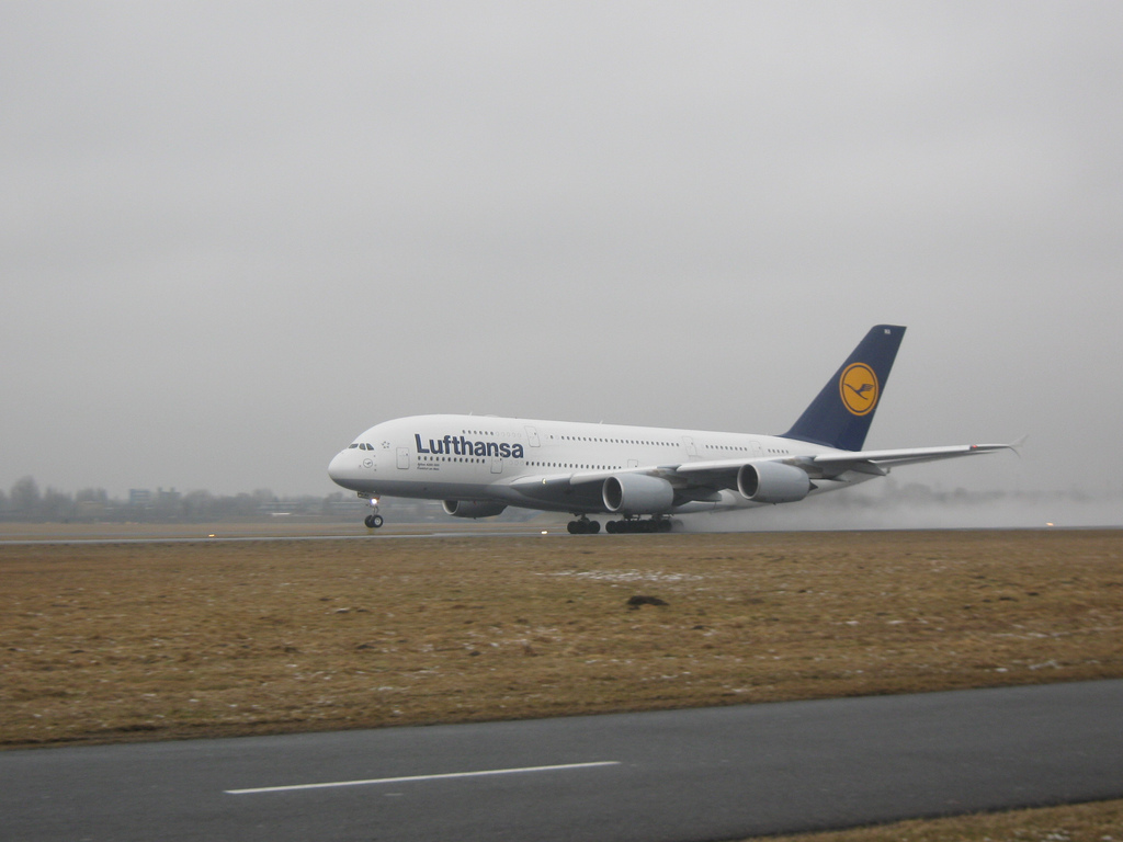 A380 Take Off in the Frederic Chopin Airport - Warsaw.